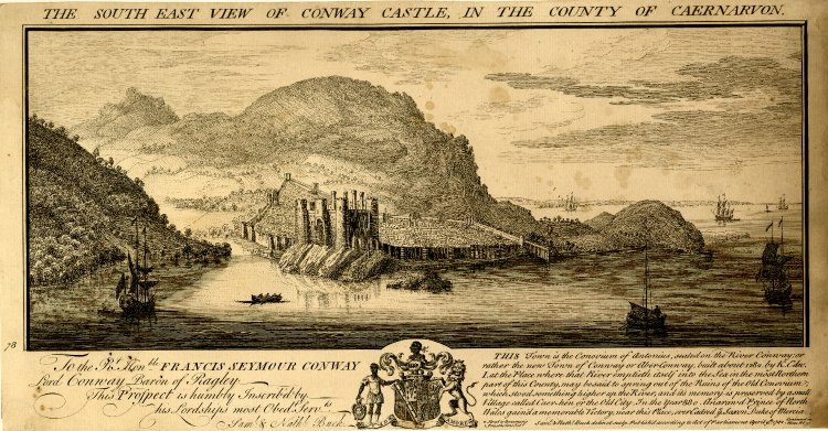 "The south east view of Conway Castle, in the County of Caernarvon" engraving, published in 1742. Courtesy of the British Museum.